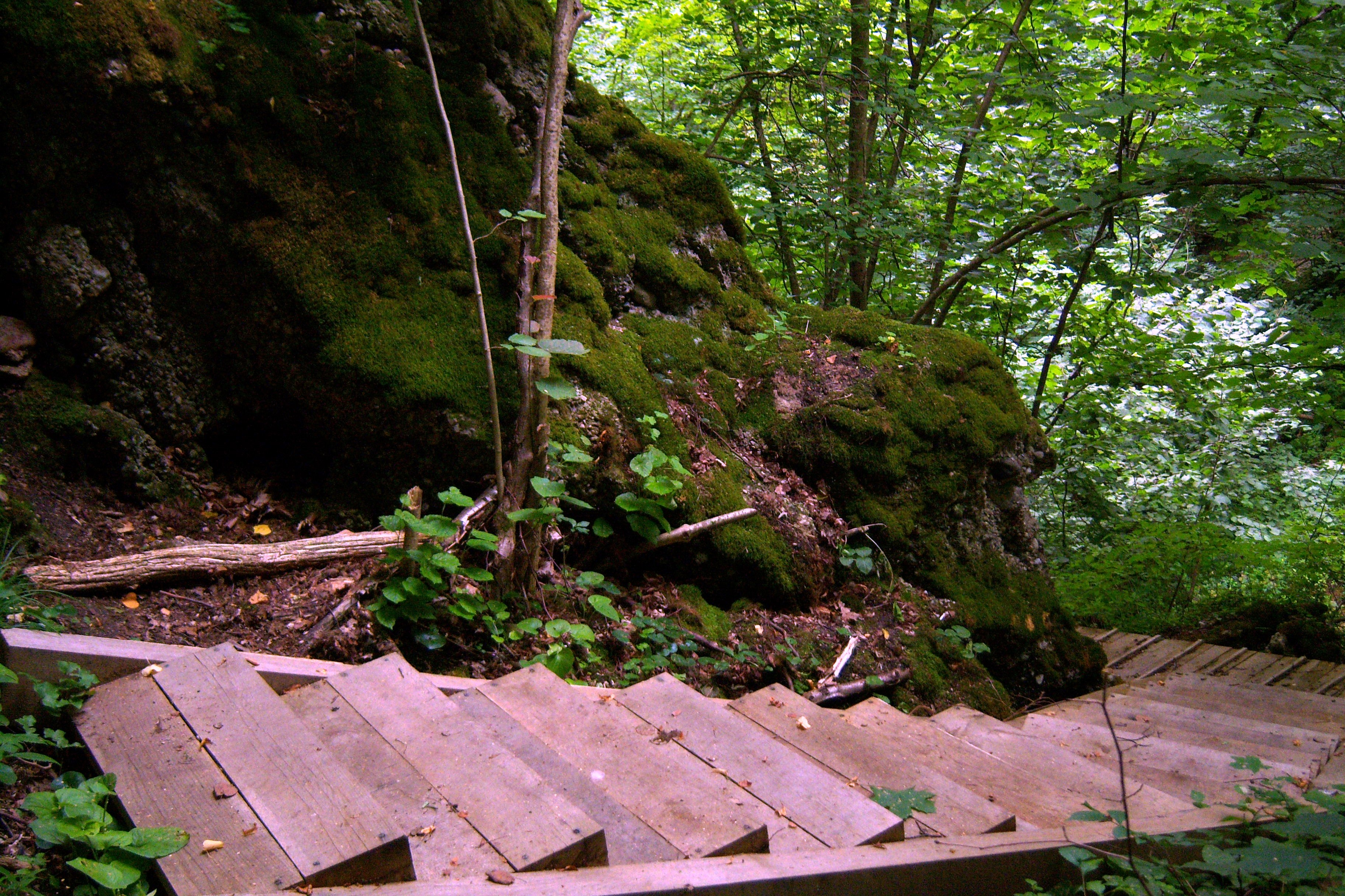 Exposure of conglomerates in Lašiniai, Kaišiadorys district, Lithuania